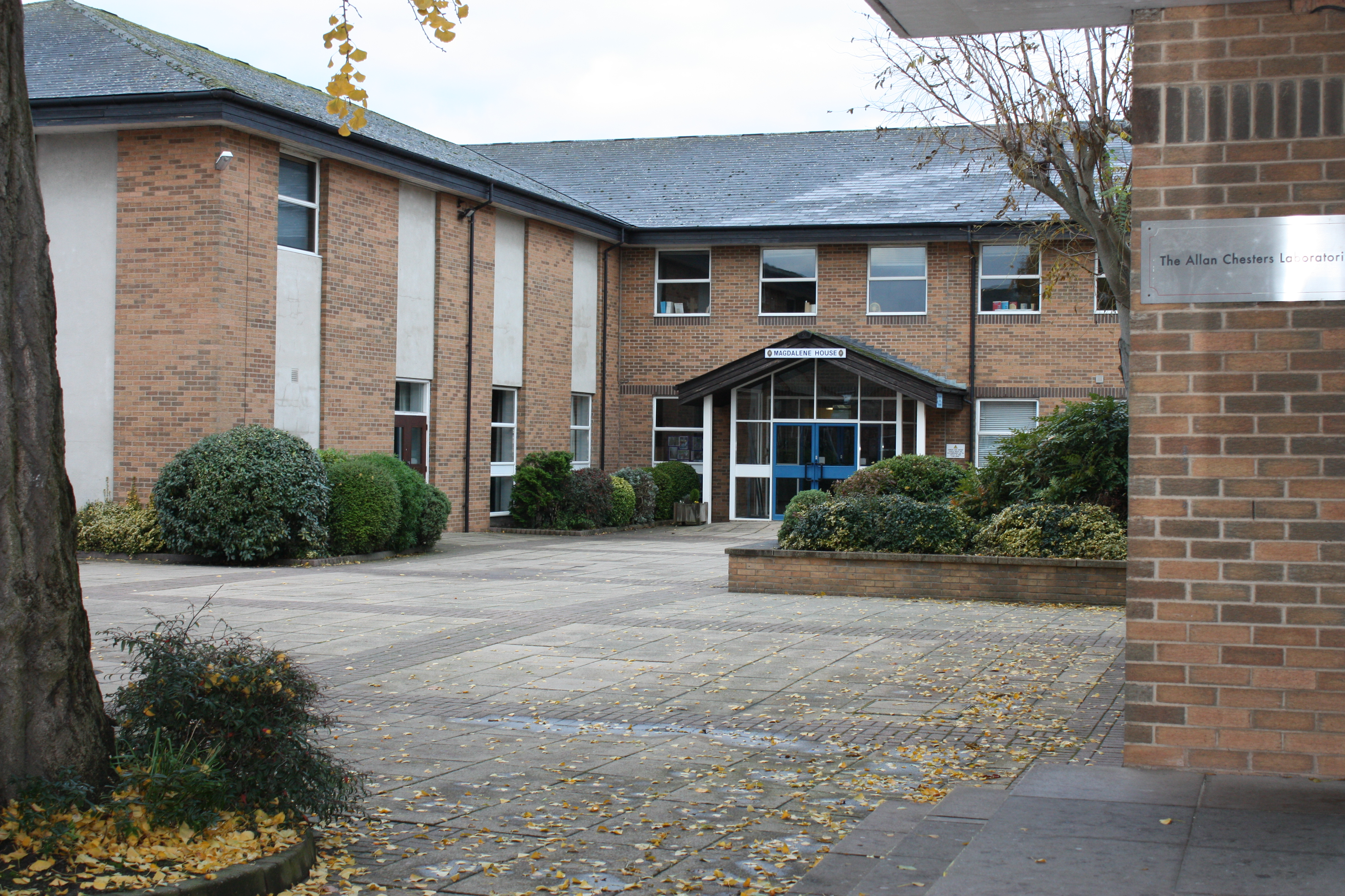 The Russell Hall, courtyard and entrance to Magdalene House at Wisbech Grammar School